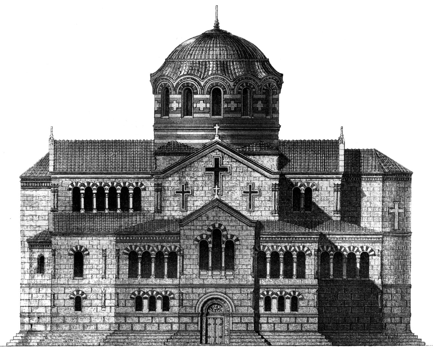 1859 design of Chersones Cathedral of St. Vladimir. Southern facade